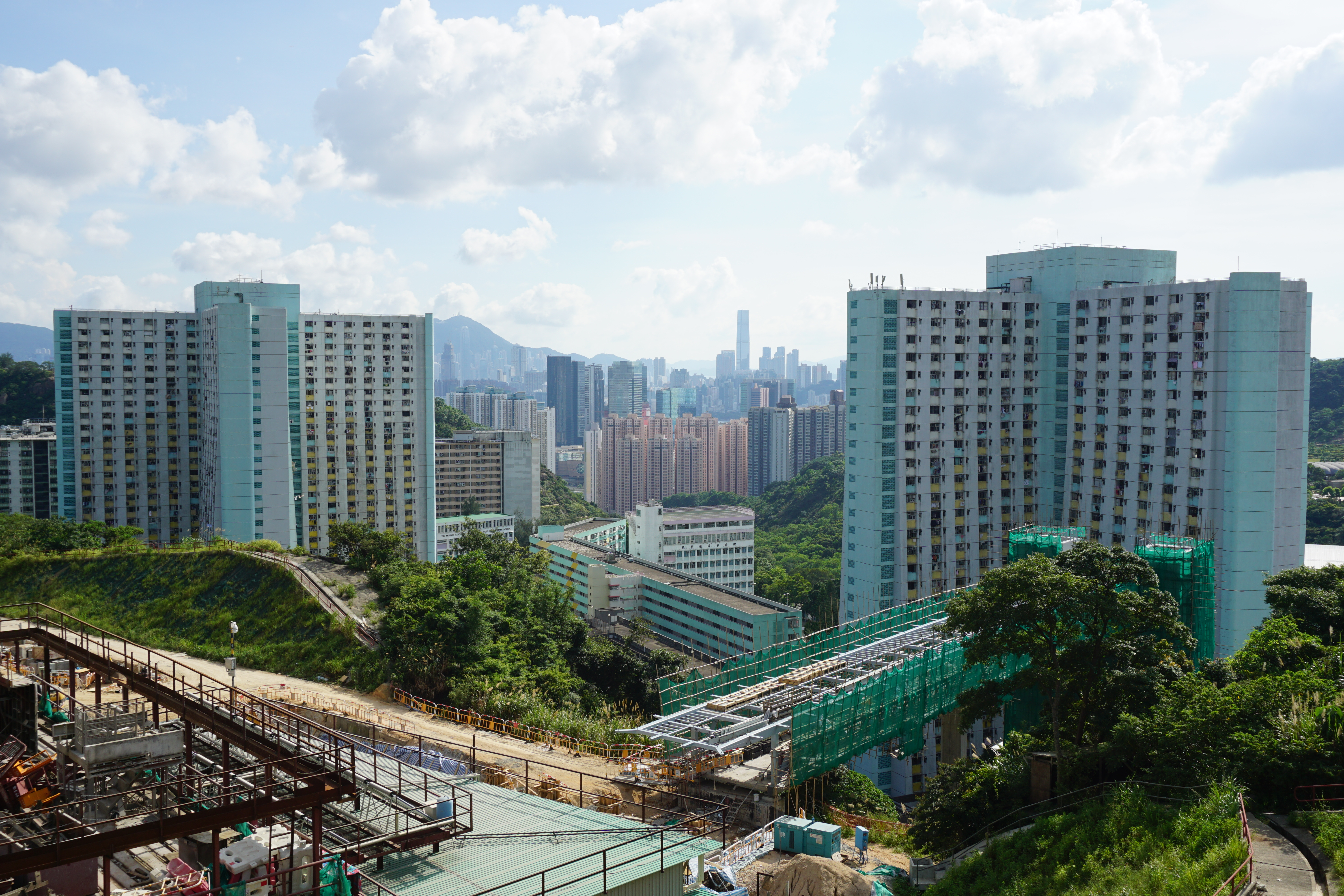 Shun On Estate in Sau Mau Ping, Hong Kong.